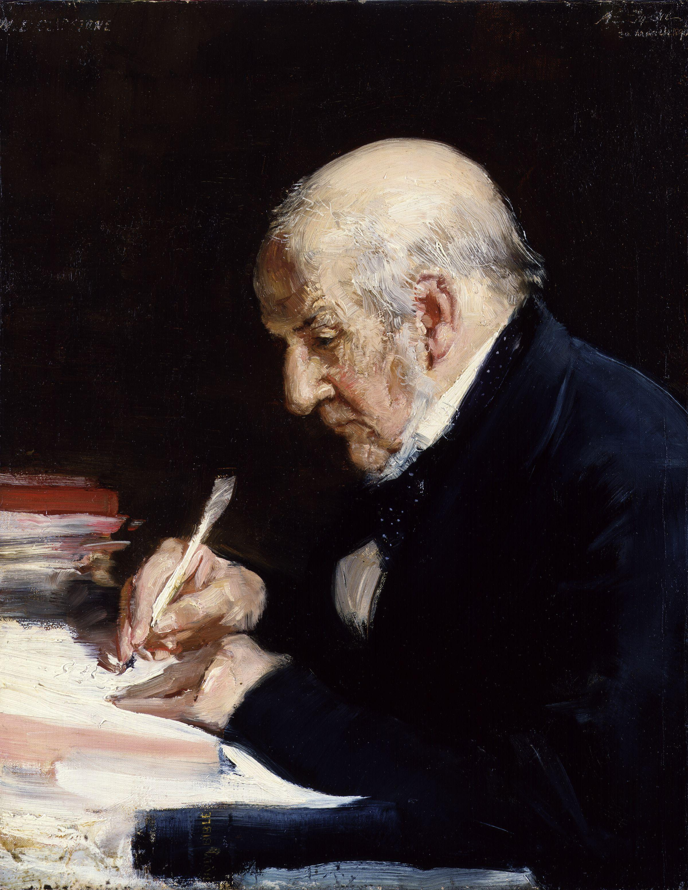 William Ewart Gladstone, by Alfred Edward Emslie (died 1918), given to the National Portrait Gallery, London in 1954. All images in this batch have been confirmed as author died before 1939 according to the official death date listed by the NPG.